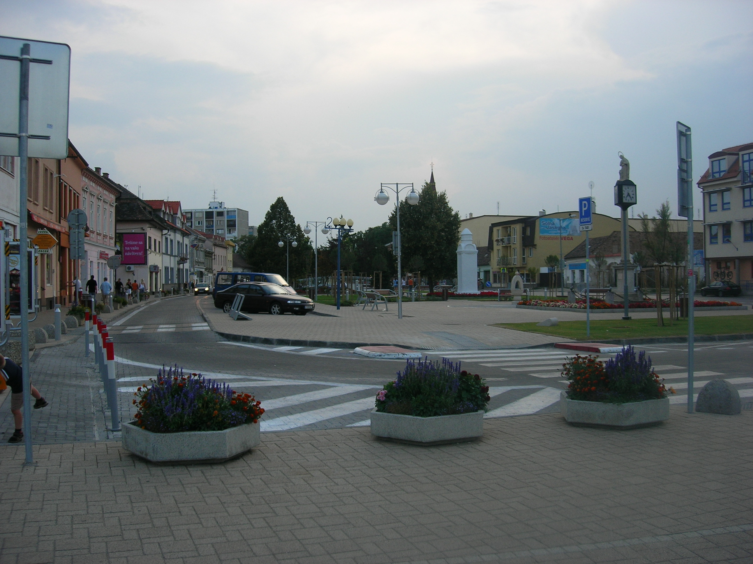 Senec, Slovakia